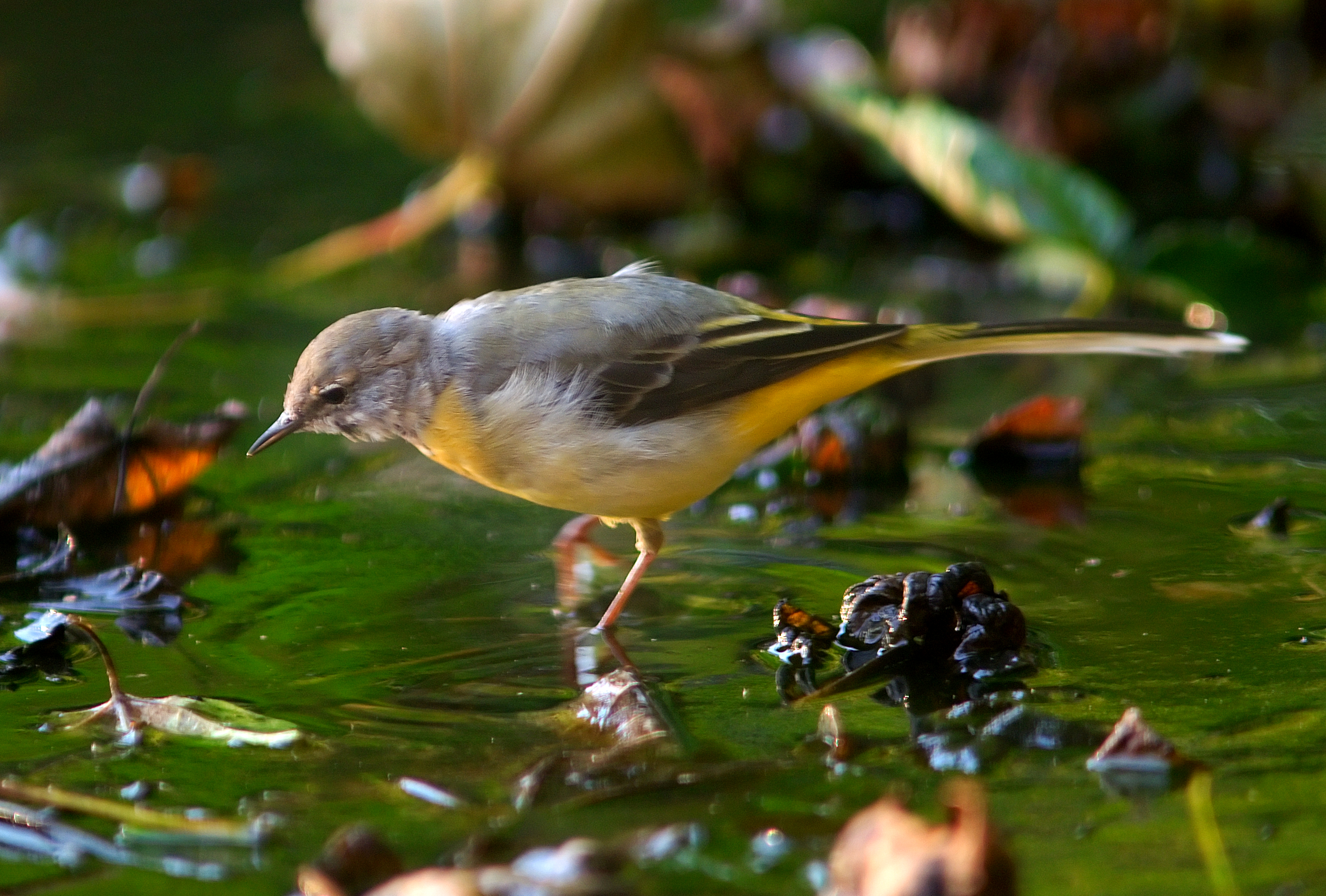 Motacilla cinerea (Grey Wagtail) in Belgium (Brussels)